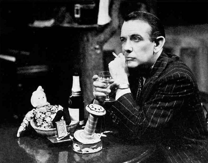 Promotional photograph of Eddie Dowling as Joe in the original Broadway production of The Time of Your Life